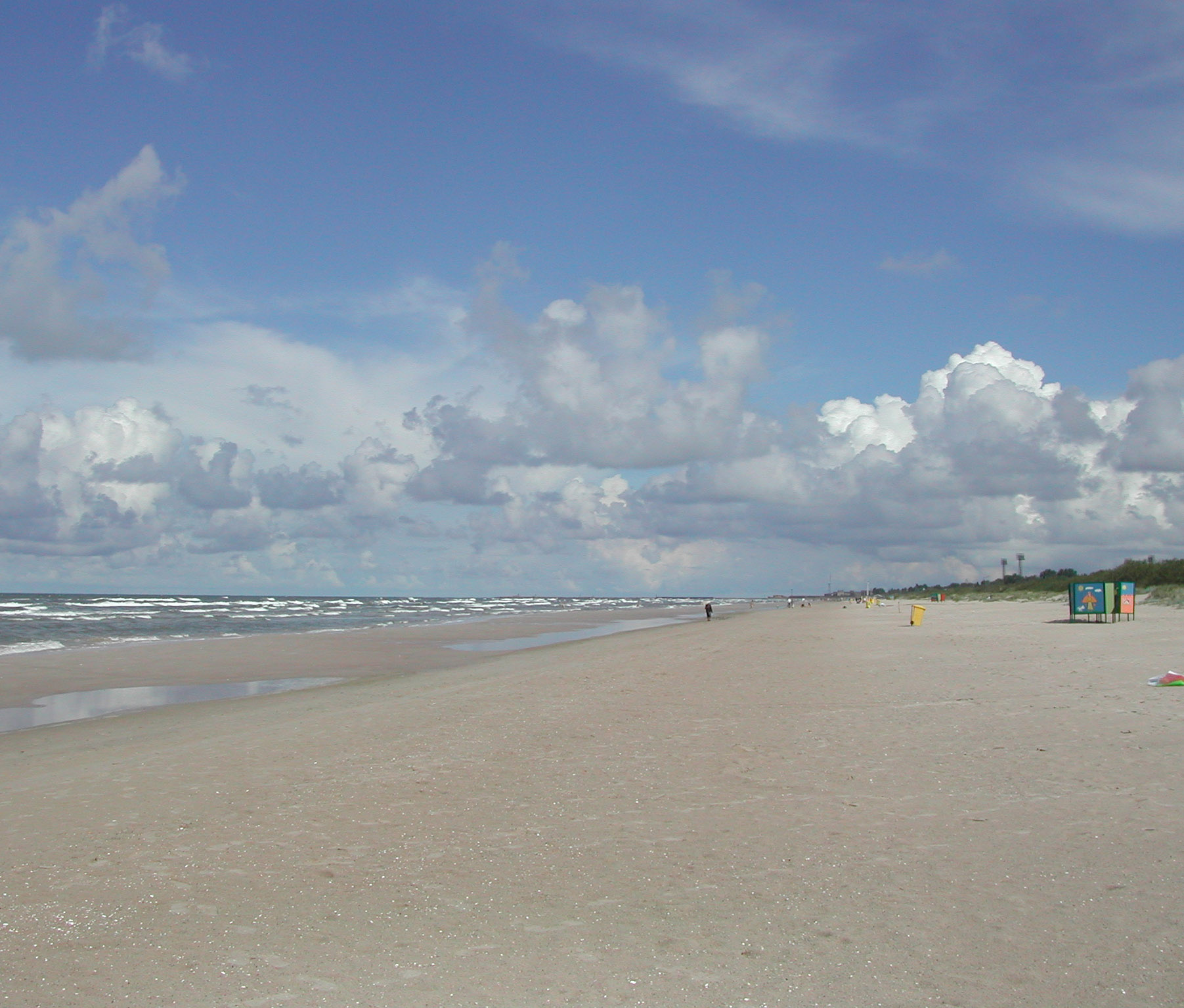 Beach of Liepaja, Latvia